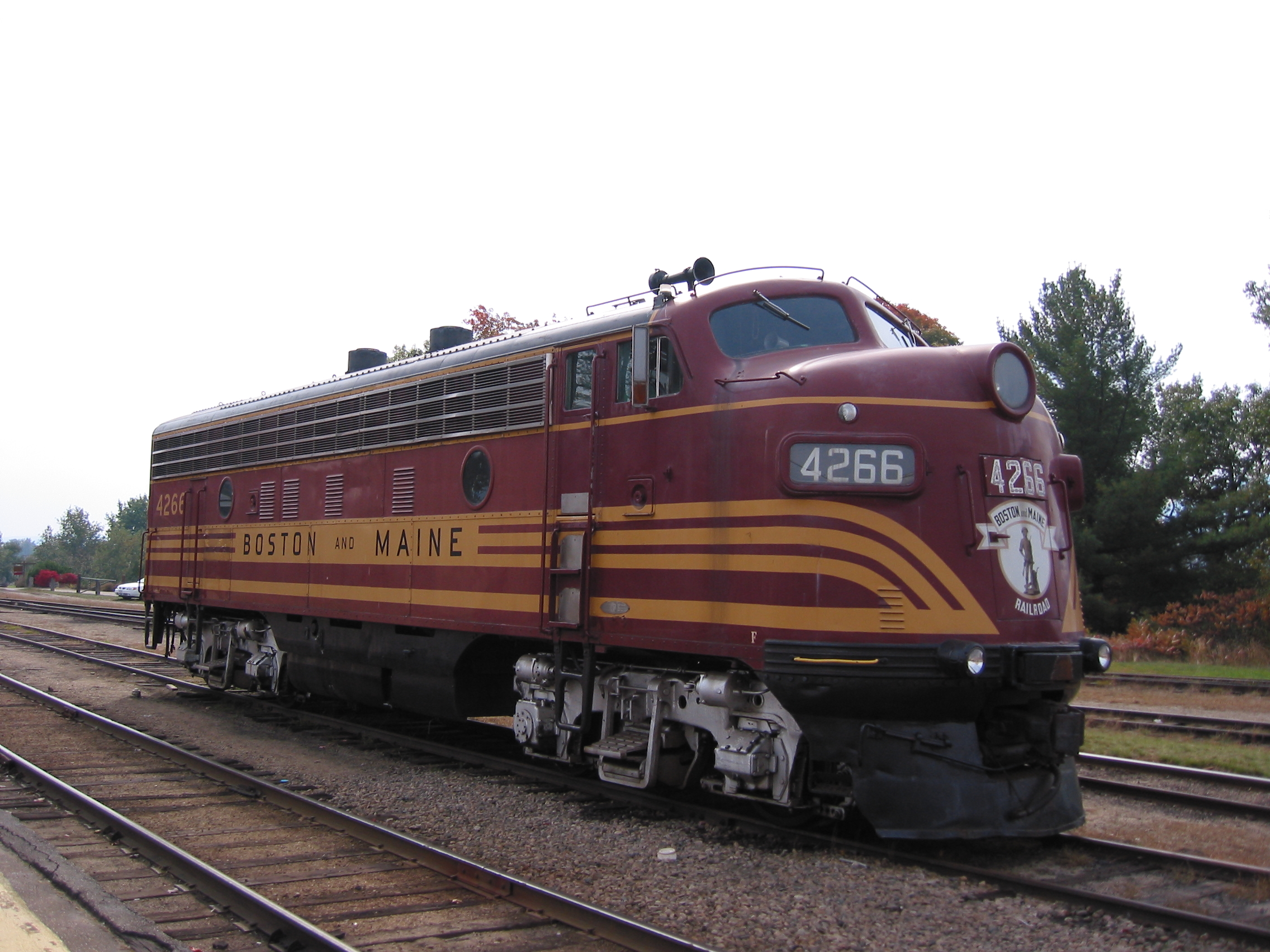 Conway Scenic Railroad,New Hampshire,United States.#4266 EMD (F7A) built in 1950 An ex-Boston and Maine unit leased from the 470 Railroad Club of Portland, Maine. This locomotive serves as backup power for both the Valley Train and the Notch Train.